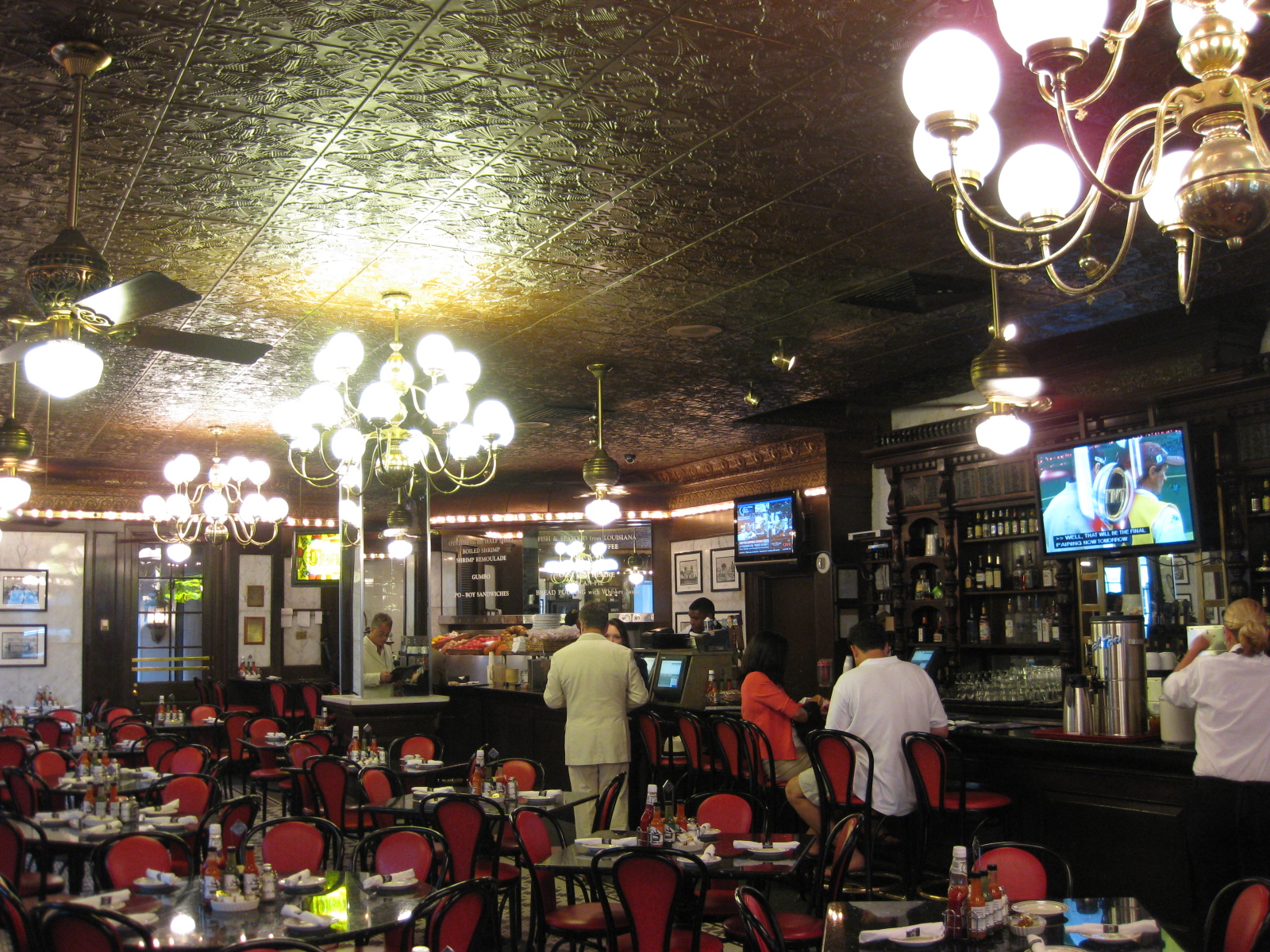 Desire Oyster Bar, French Quarter, New Orleans. Interior Had blackened red fish and turtle soup.